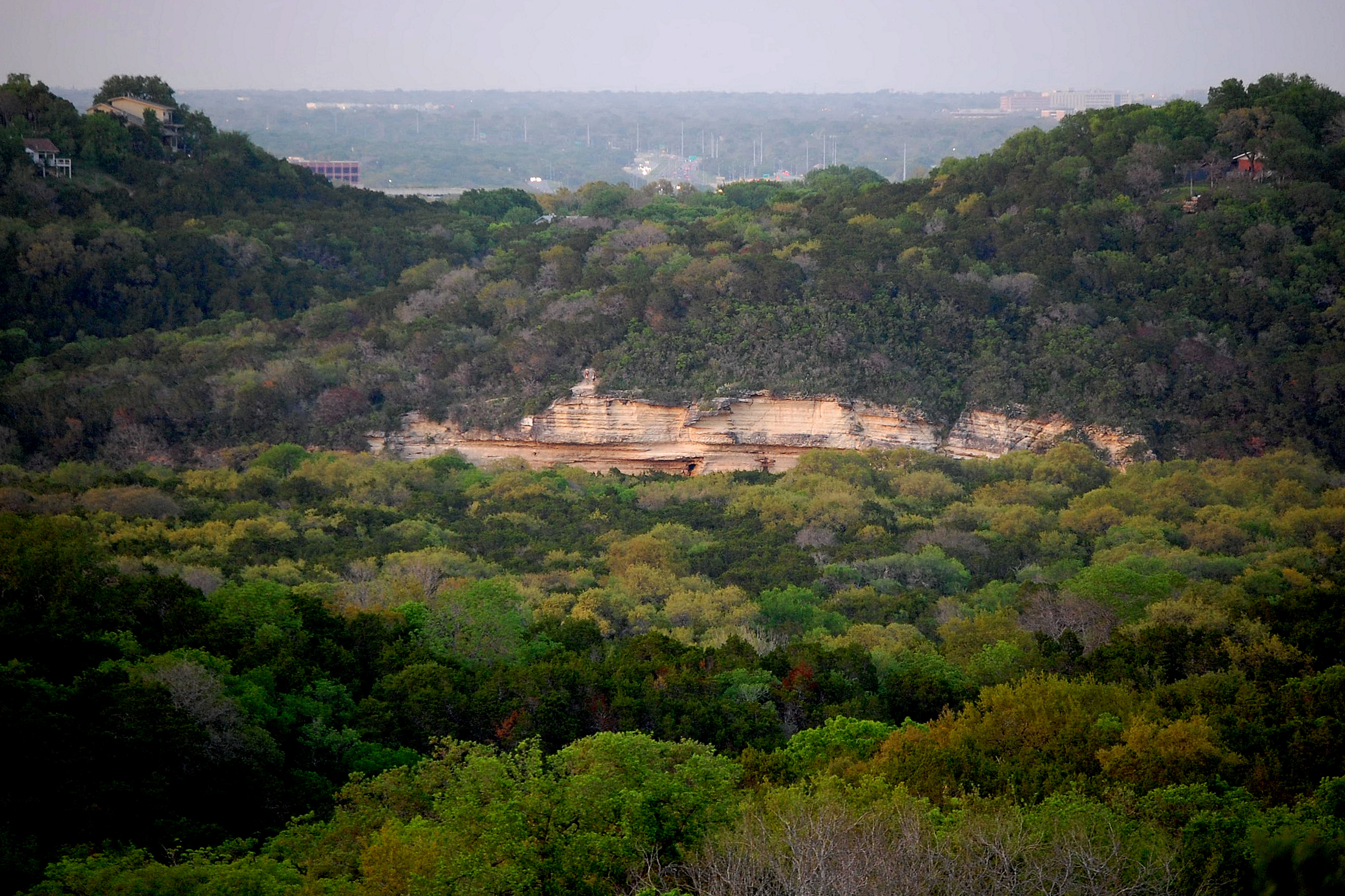 Overlooking the Barton Creek Greenbelt in Austin, Texas